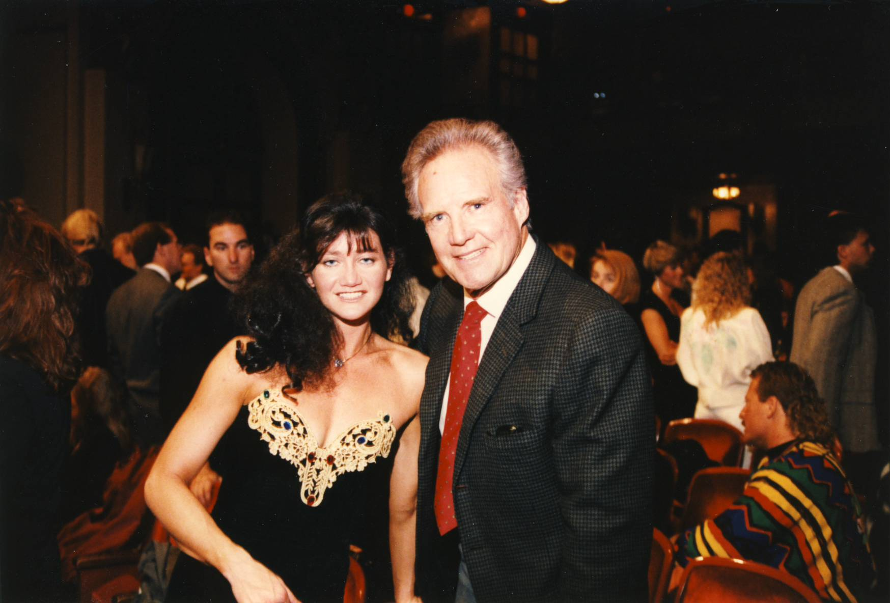 Steve Reeves at the 1990 Ms. Olympia with bodybuilder Melissa Palmer